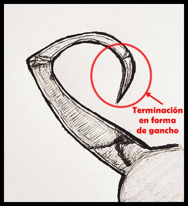 Antena de Ergasilus